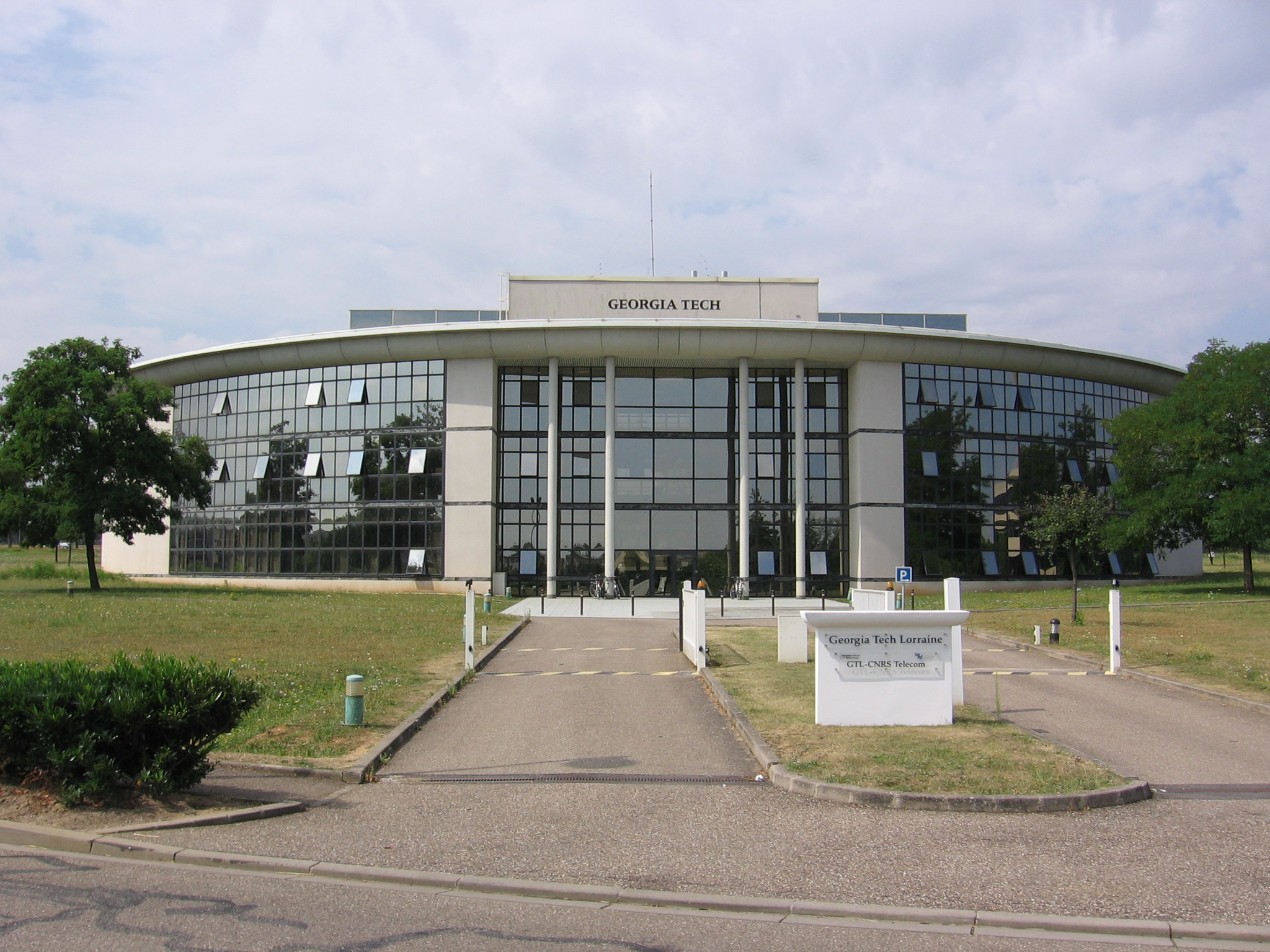 Photographer Joshua Cuneo agreed to license this image of Georgia Tech Lorraine under a free attribution license.